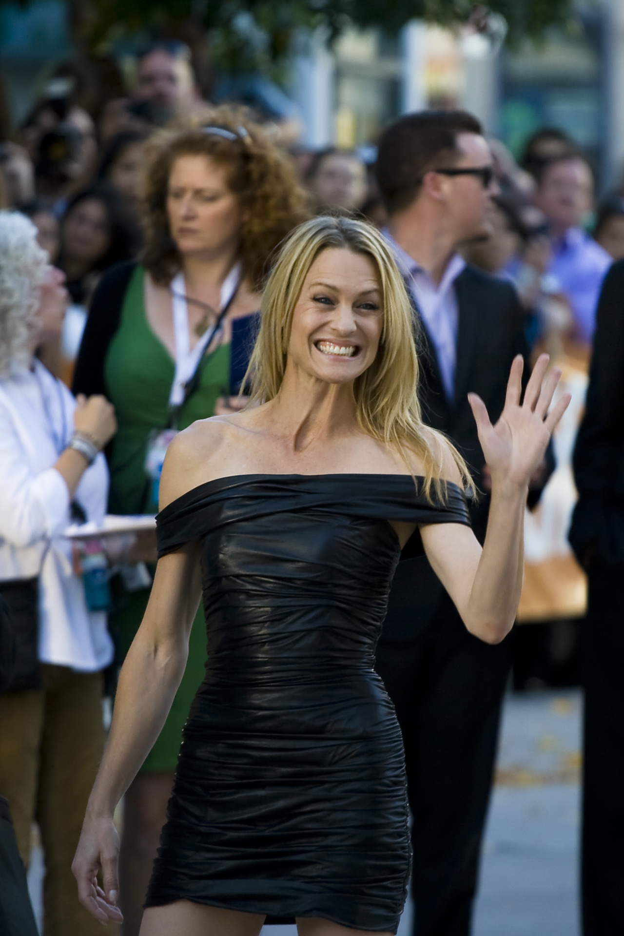 At the premiere of "The Private Lives of Pippa Lee", directed by Rebecca Miller, during the Toronto International Film Festival, 2009.